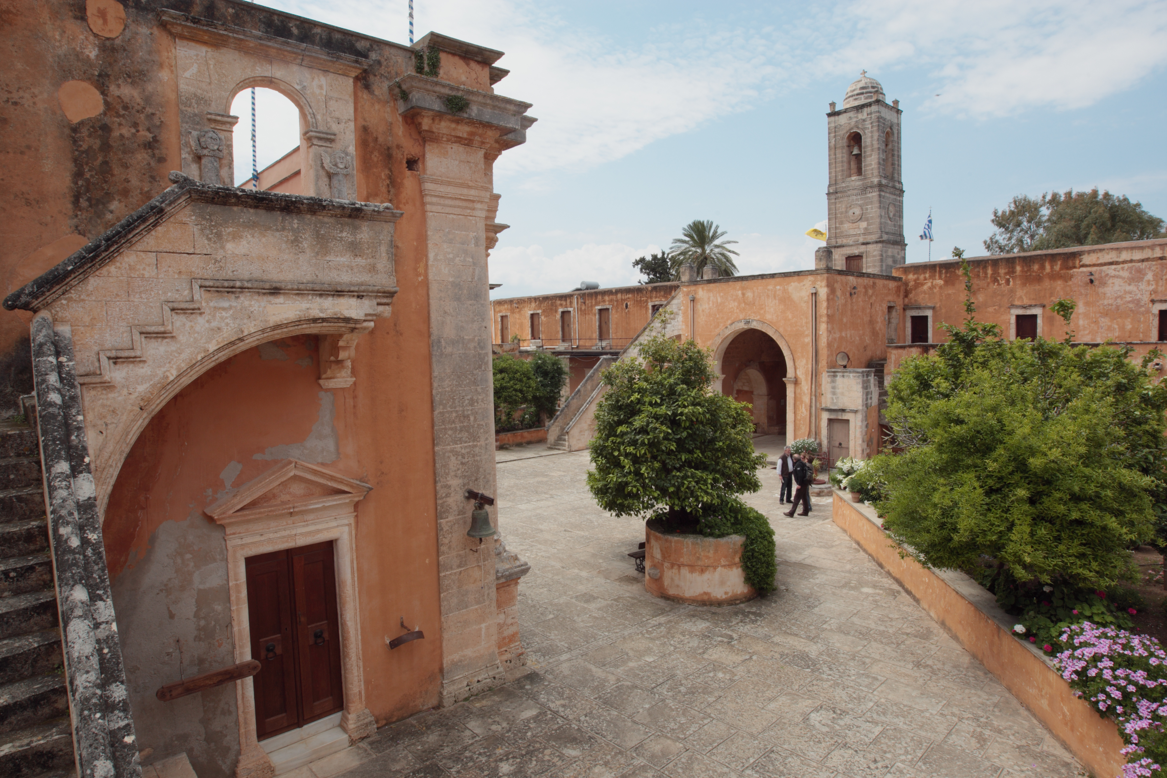 The monastery of Agia Triada in Akrotiri peninsula ( Crete )